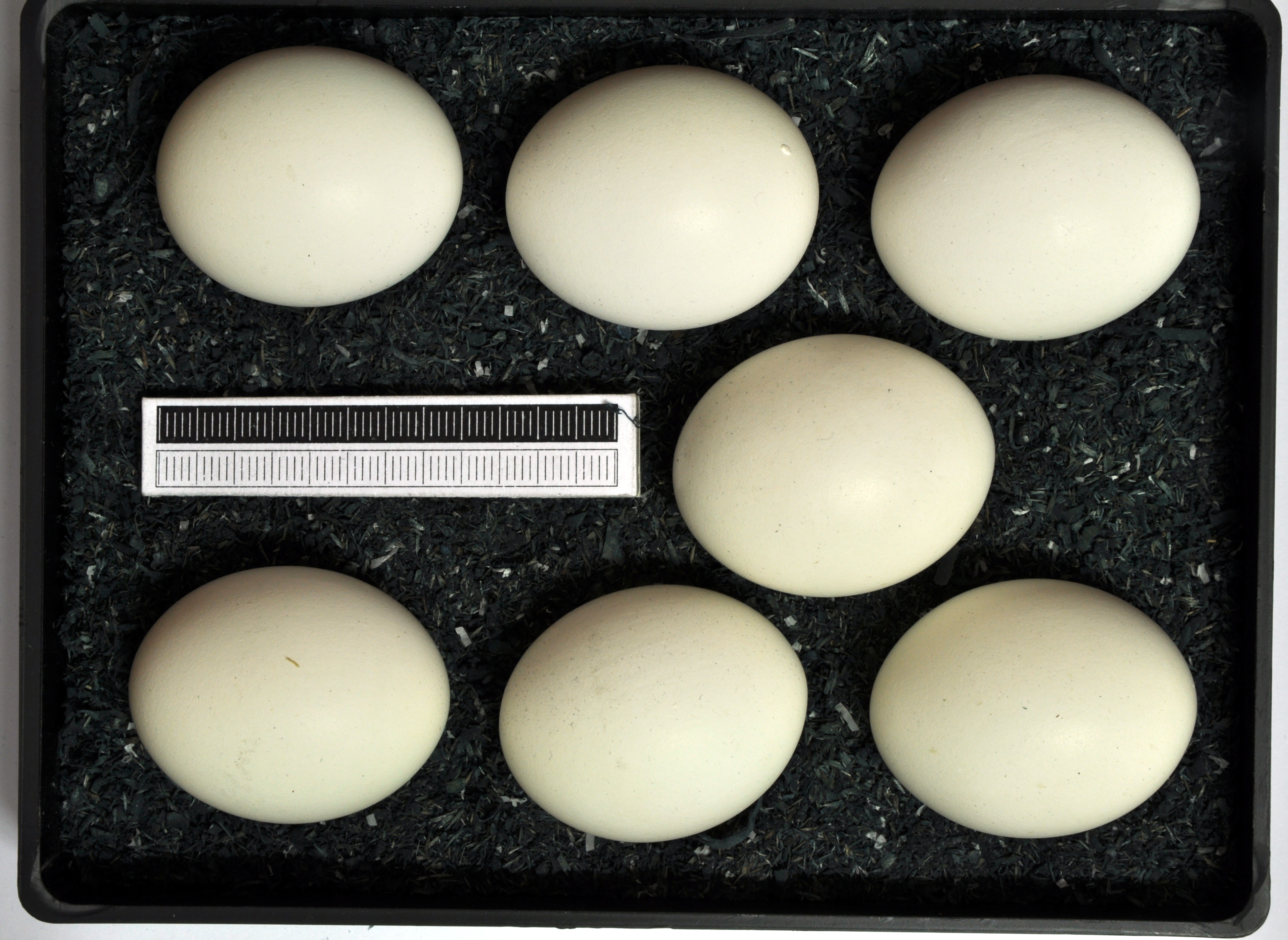 Long-eared owl Asio otus, egg, Coll. Museum Wiesbaden, Origin: Ismaning, Bavaria, 30.03.1969, leg. W. Abelmann